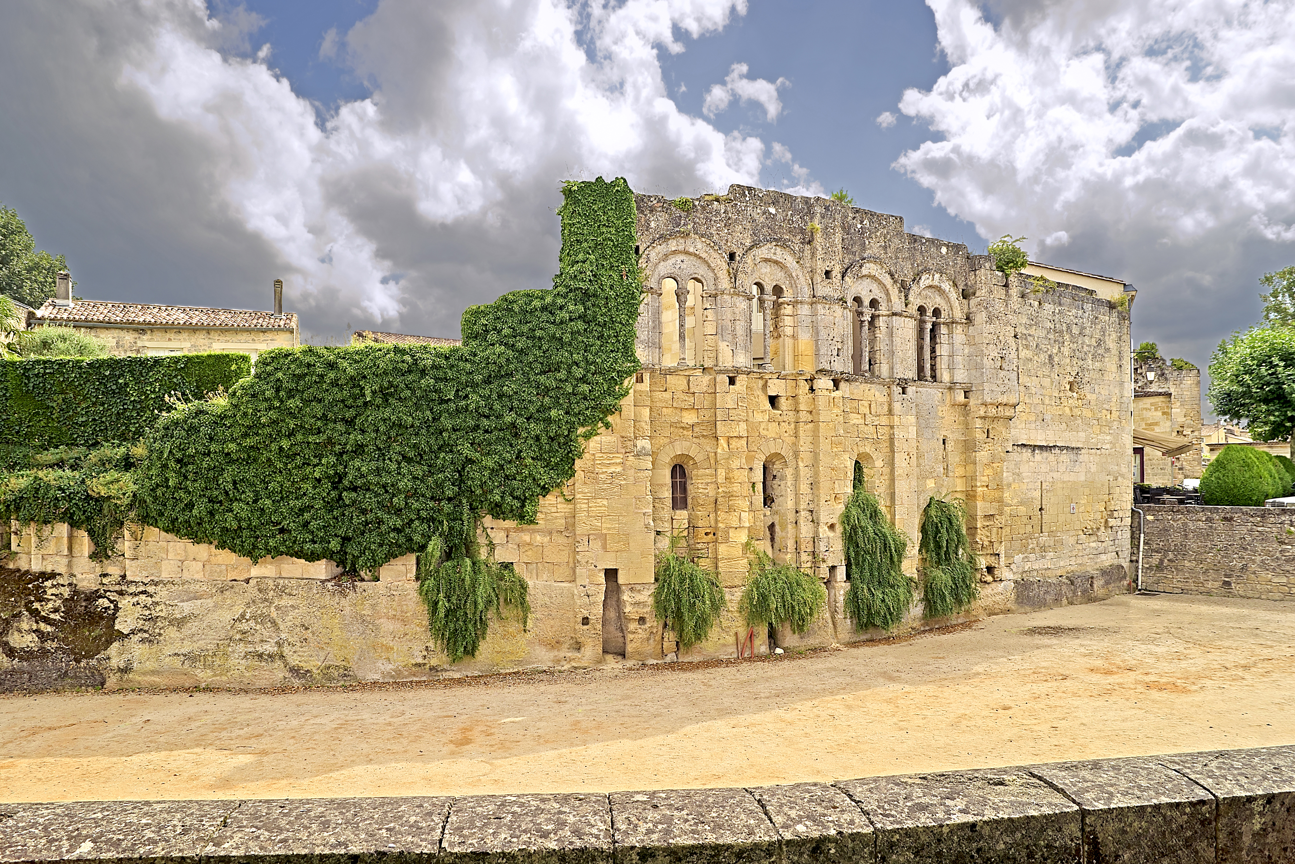 Palace of the twelfth century. It remains today a wall, integrated into the wall of the city. The name of this monument comes from Gaillard de la Mothe archbishop of Bordeaux, Cardinal of Sainte-Luce, Saint-Émilion, Gironde, France.